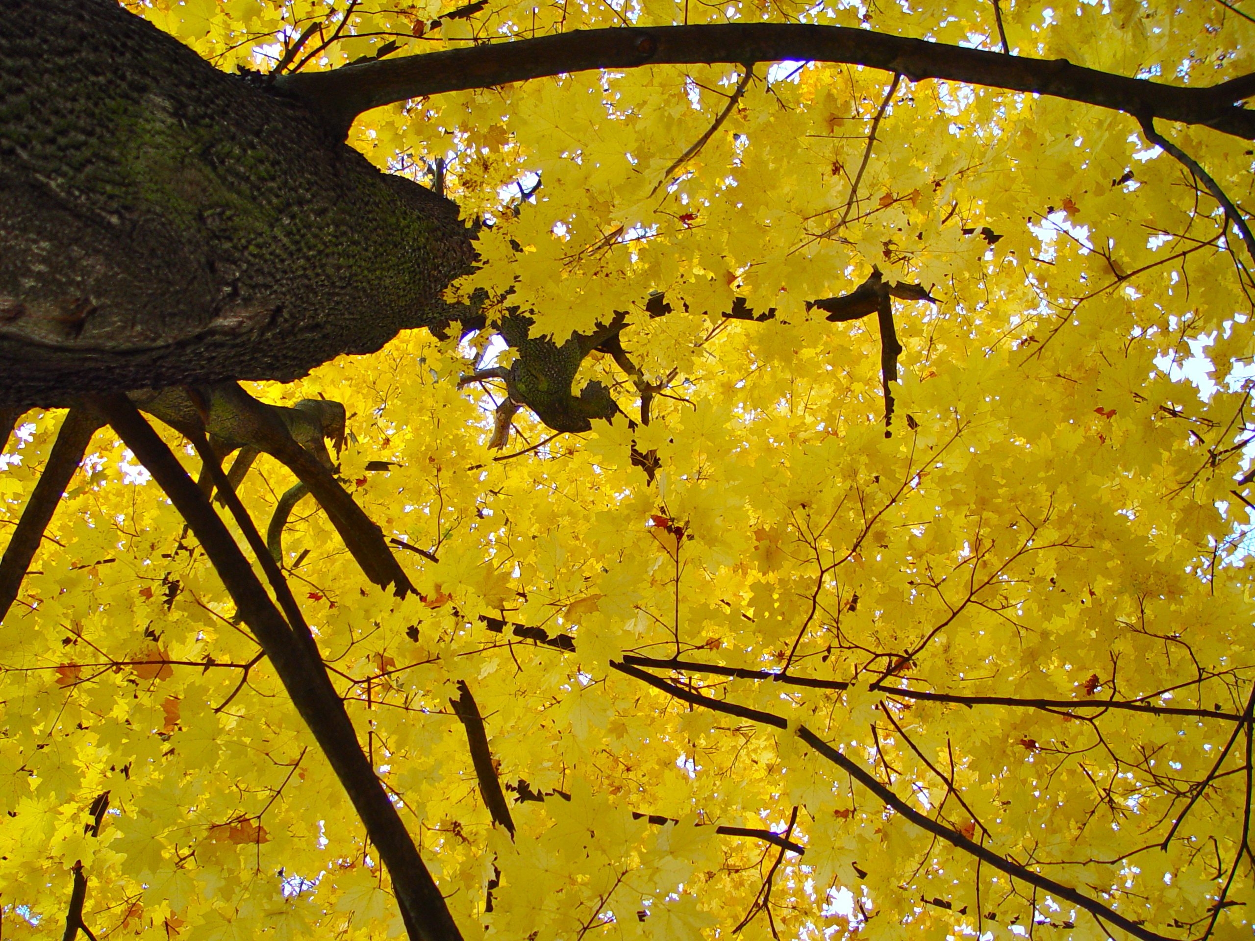 Acer platanoides. Autumnal mood in the park of Schloss Charlottenburg, Berlin, Germany